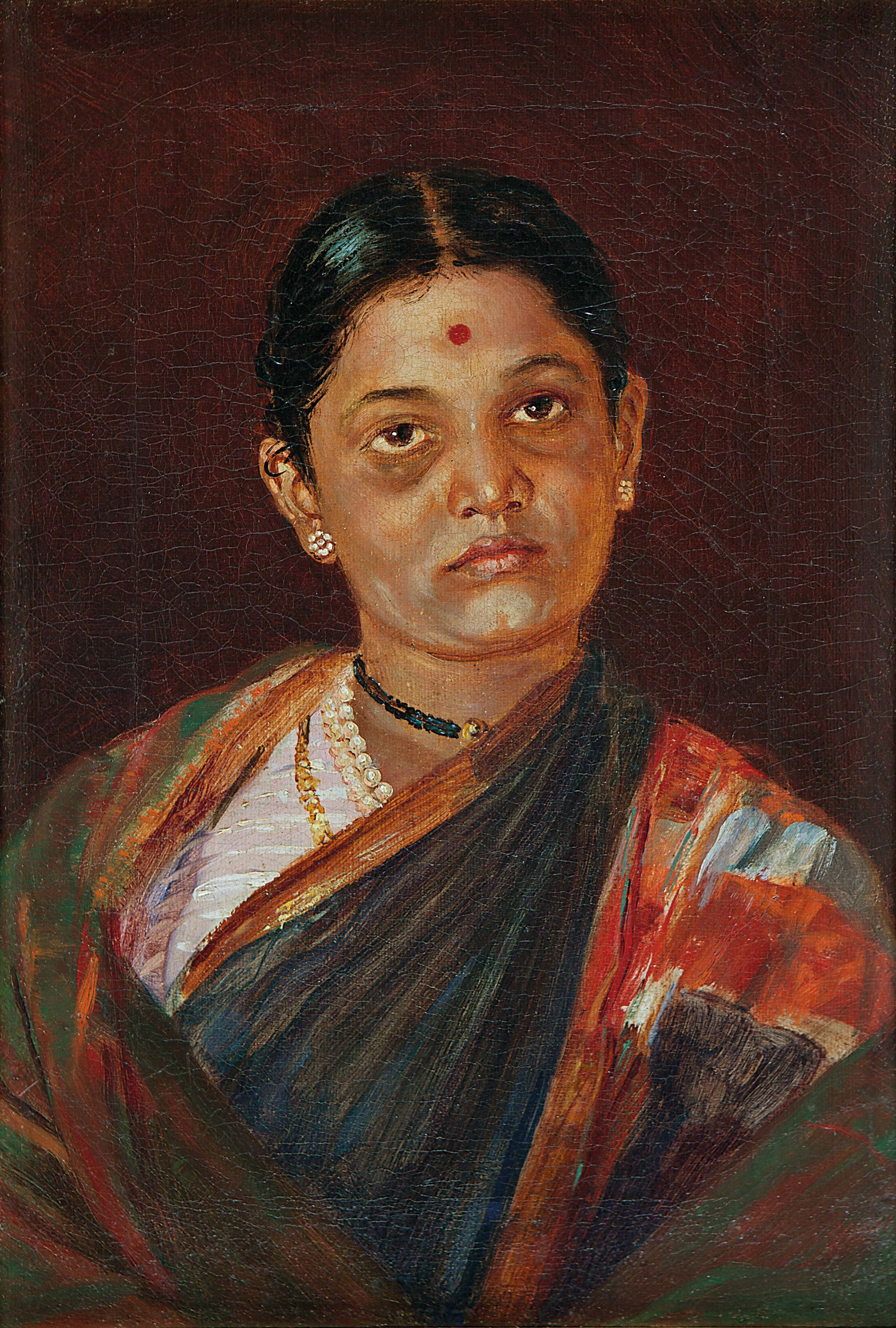 MV Dhurandhar, Portrait of the Artist’s Wife, oil on canvas, 11.5×8 inches at NGMA, Mumbai as part of retrospective titled, ‘The Romantic Realist’